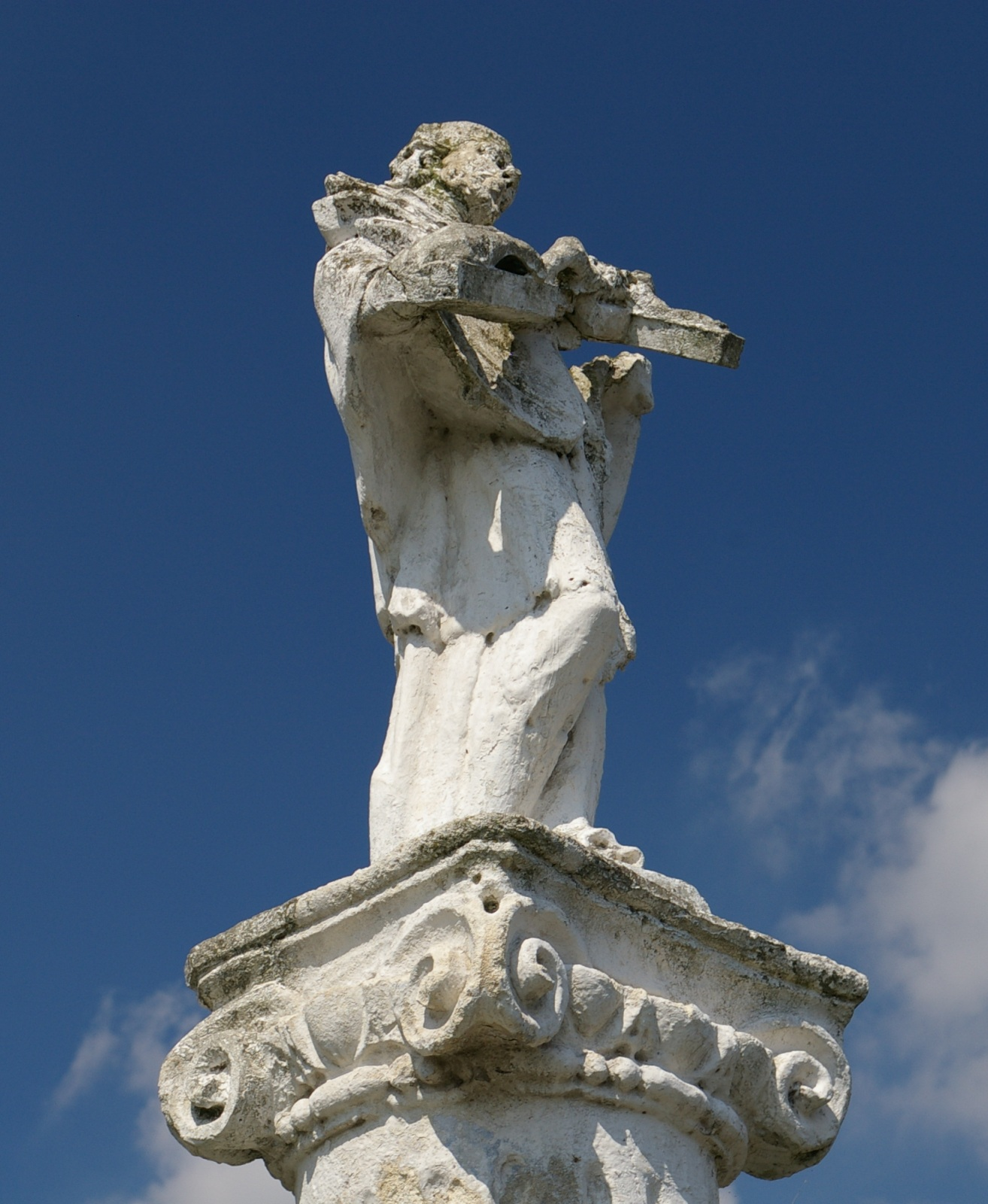 Wayside statue of Saint John Nepomucene in Chotel Czerwony, Poland